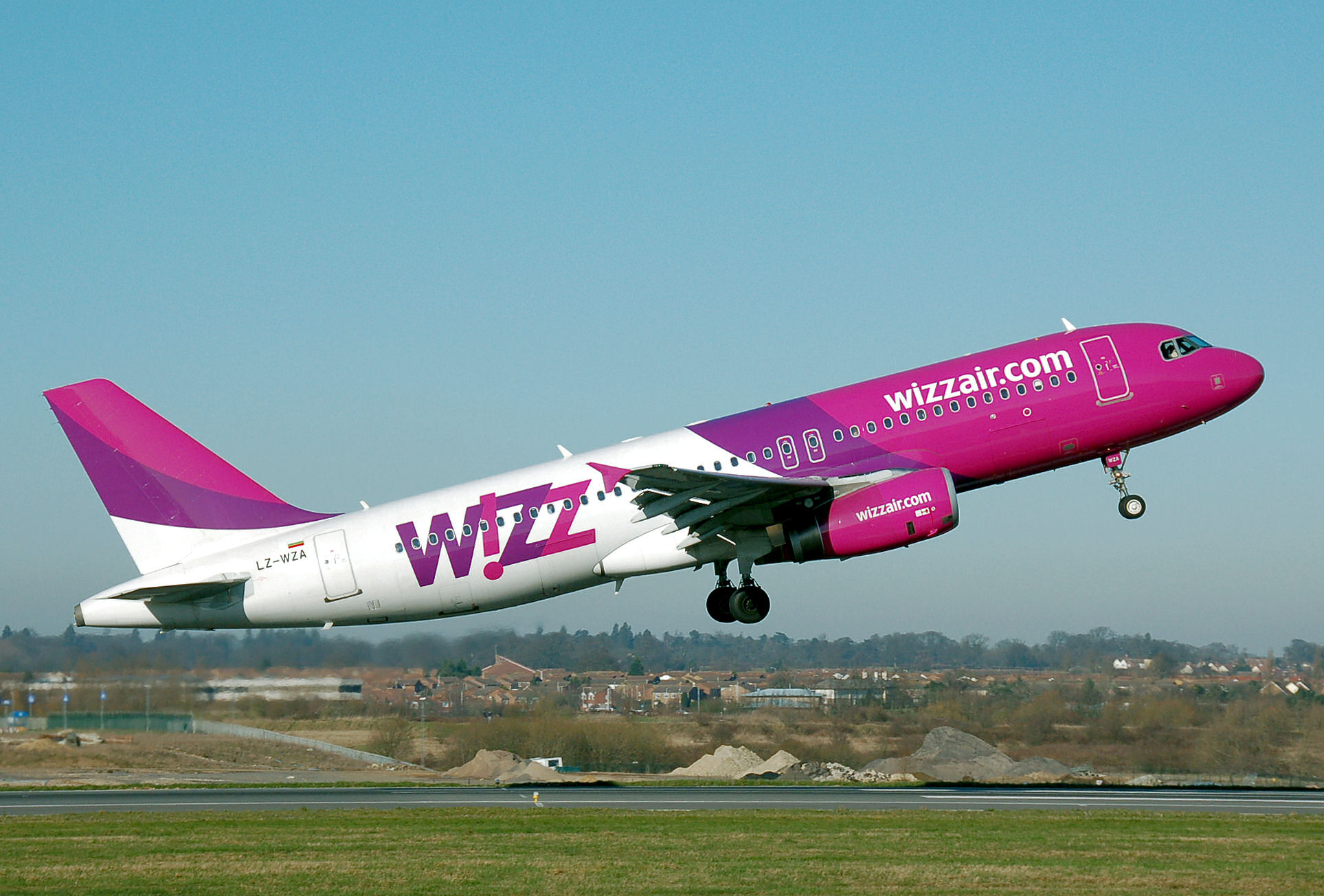 Whizz Air Airbus A320-200 (LZ-WZA) leaves the ground at London Luton Airport, Bedfordshire, England.